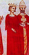 Yolande of Jerusalem